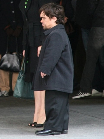 Peter Dinklage shooting a scene for the episode "Señor Macho Solo"